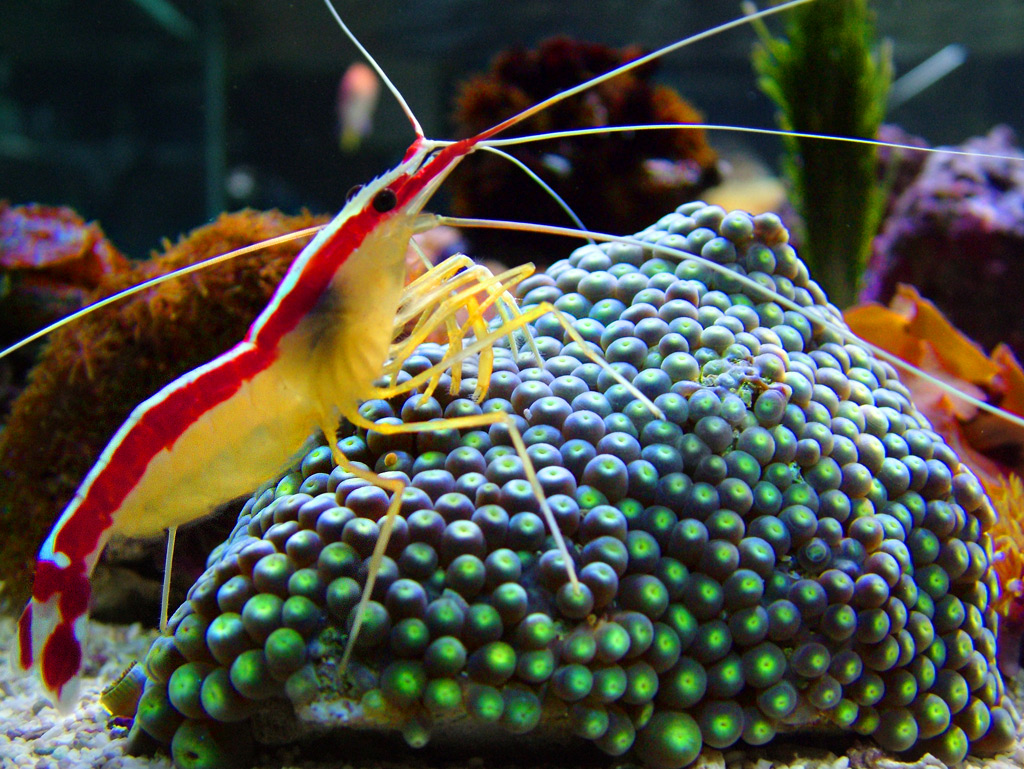 Cleaner shrimp (Lysmata amboinensis) on coral (Zoanthus sp.)